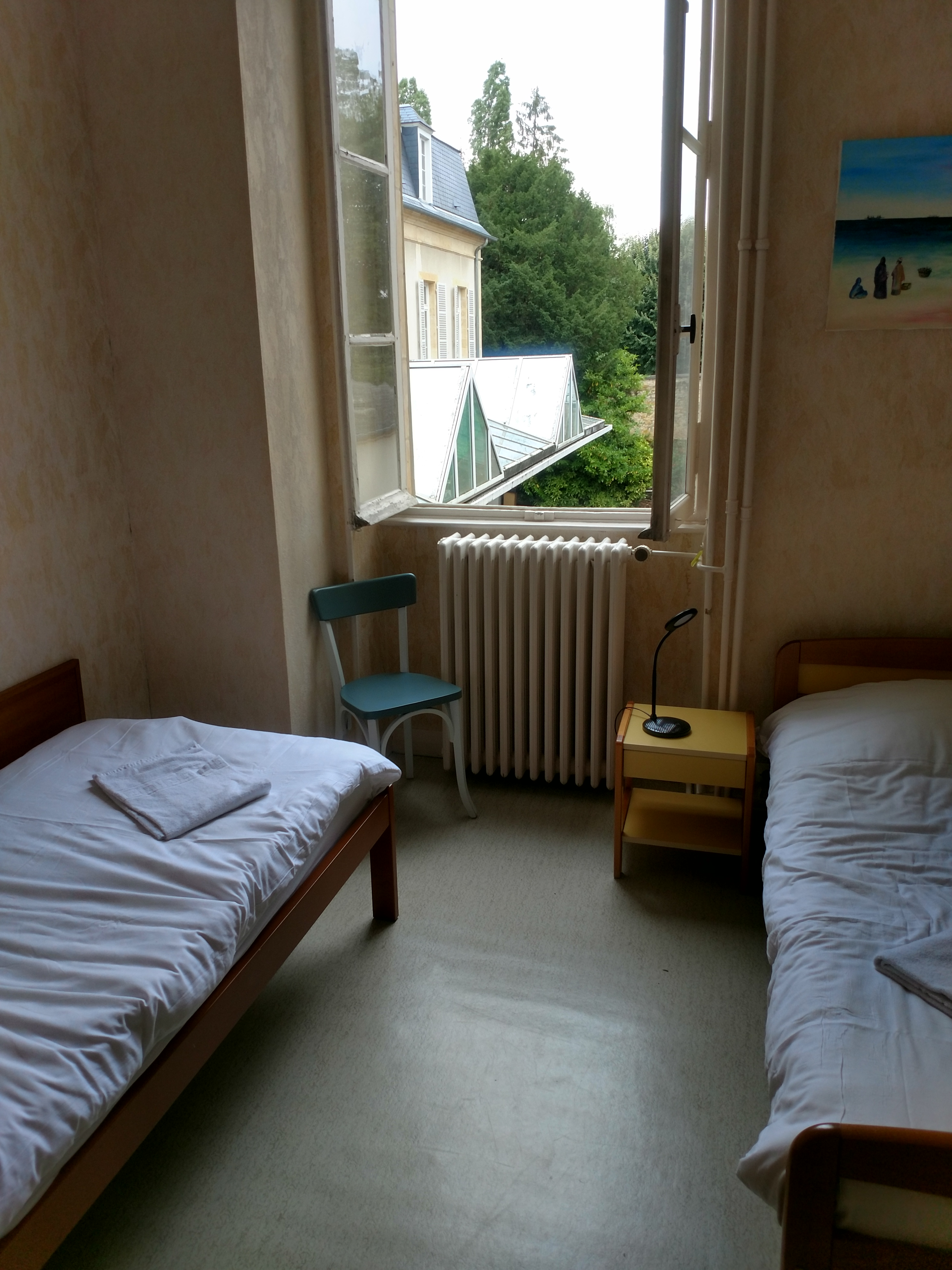 The sleeping accomadations at Espace Bernadette, formerly the rooms of sisters when it was a convent.